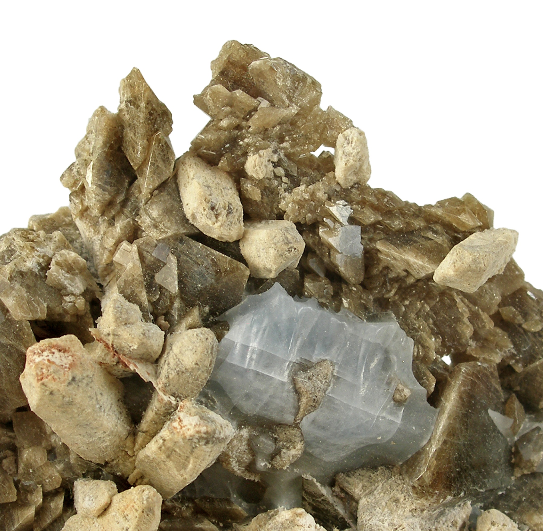 Monticellite Locality: Crestmore quarries, Crestmore, Riverside Co., California (Locality at ) A rich specimen with sharp, freestanding monticellite crystals to over 1 cm, perched on semilustrous brown vesuvianite (idocrase) crystals. Al Ordway self-collected this in 1974. This lcoale produced superb examples of the species, very rare elsewhere. Few pieces I have seen are so large and displayable as this. 8.4 x 5.7 x 2.5 cm.